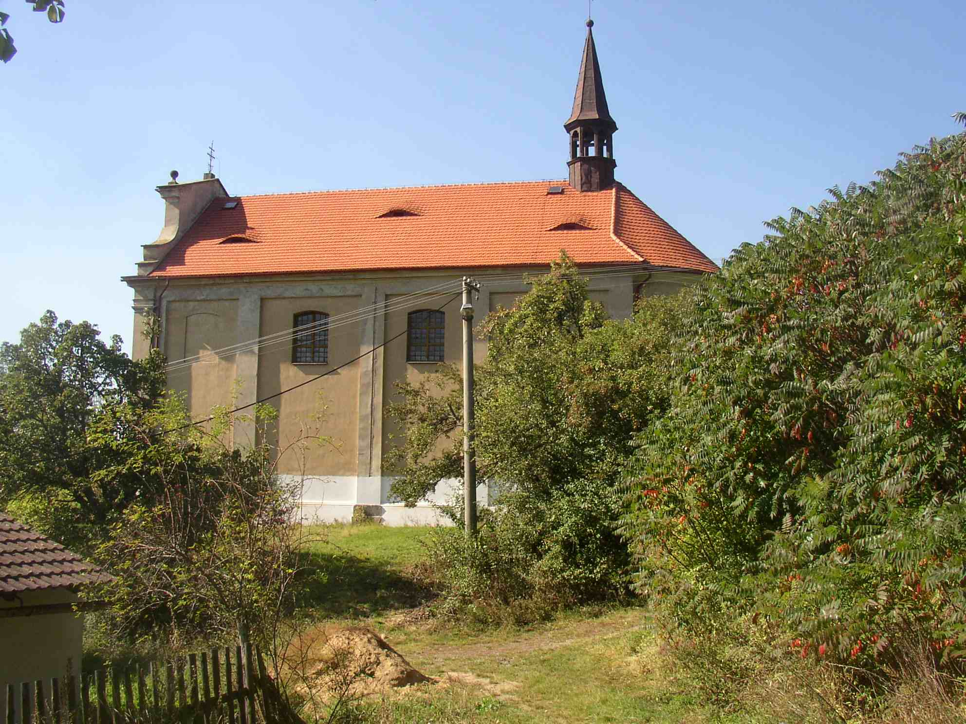 SS Peter and Paul church (1716-1724) in Sutom (part of Třebenice).